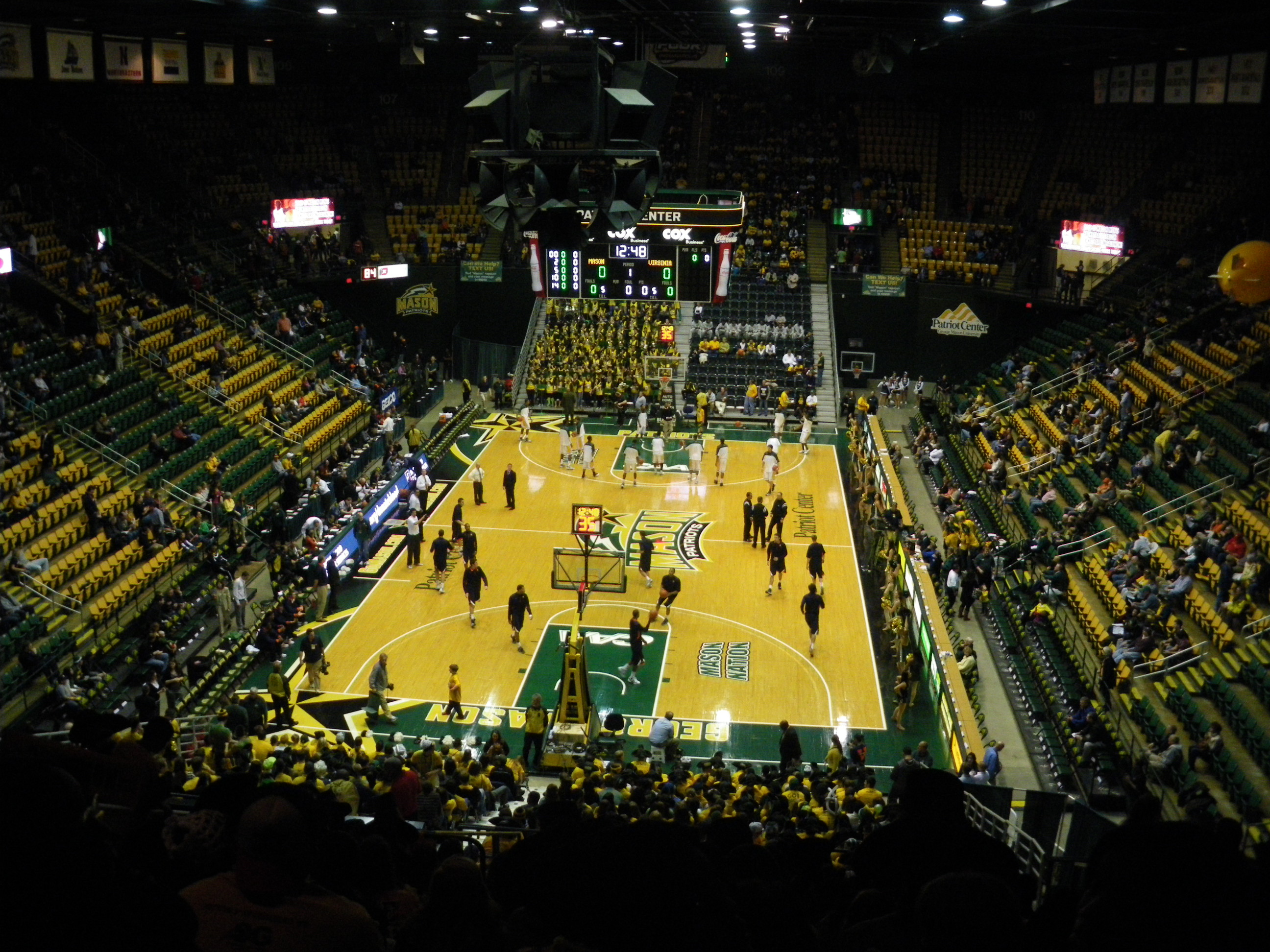 Mason Patriots vs. University of Virginia (basketball) at the Patriot Center (Fairfax, VA), November 9, 2012